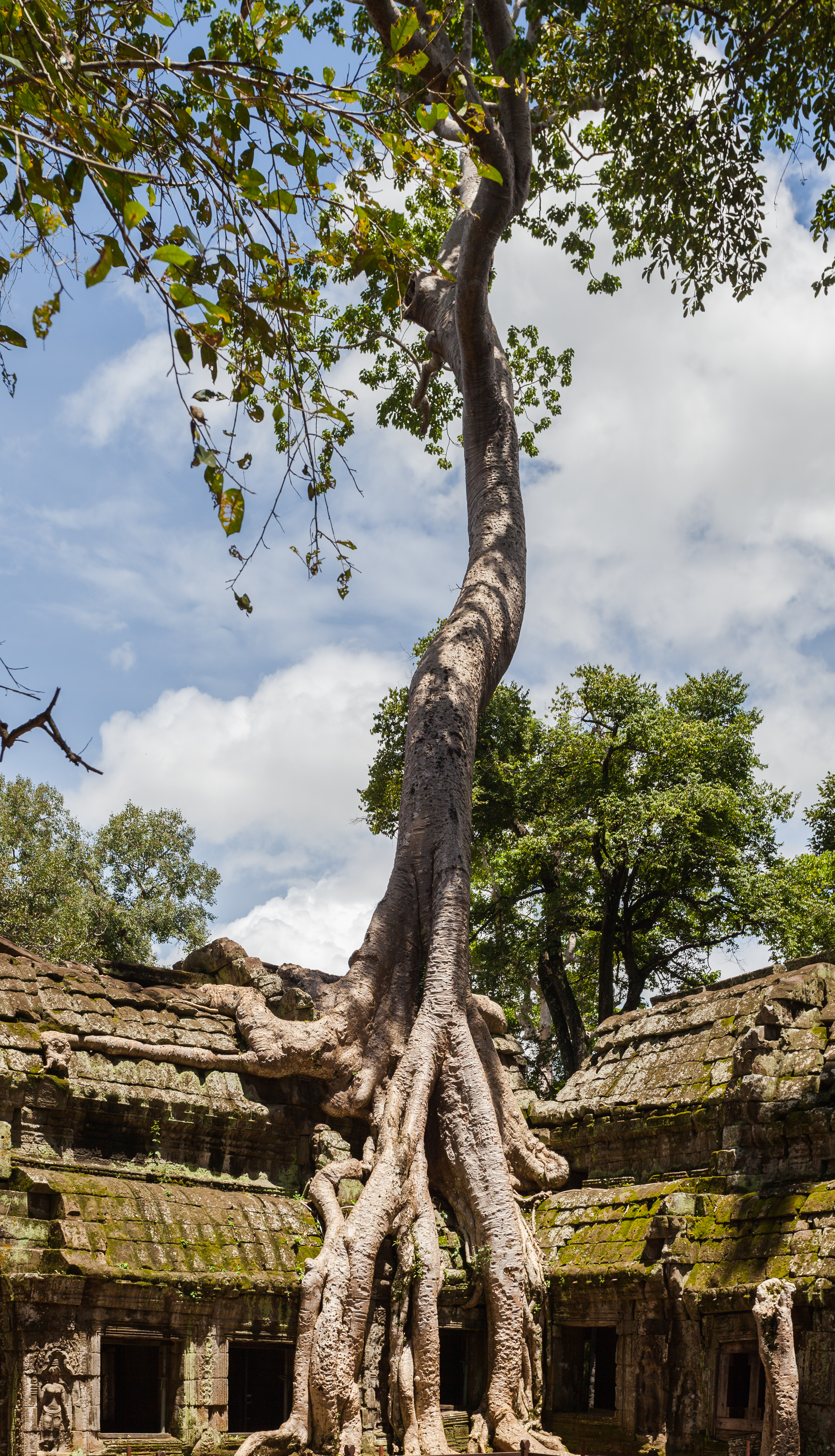 Ta Phrom, Angkor, Cambodia